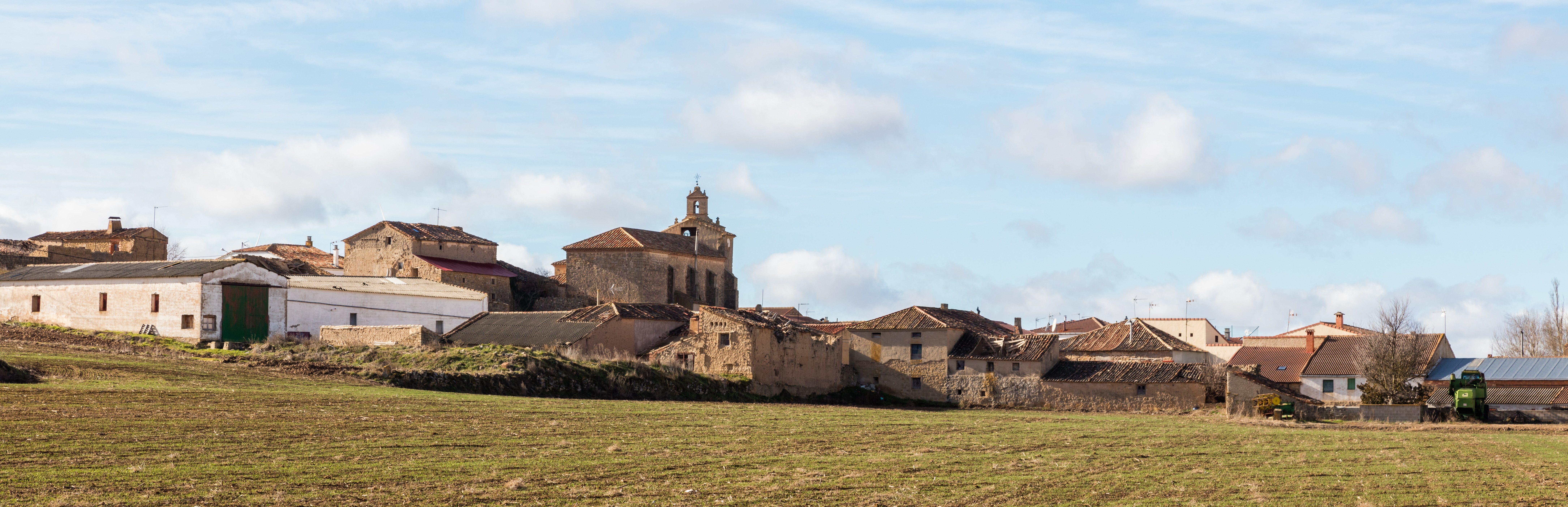 Tejado, Almazul, Soria, Spain